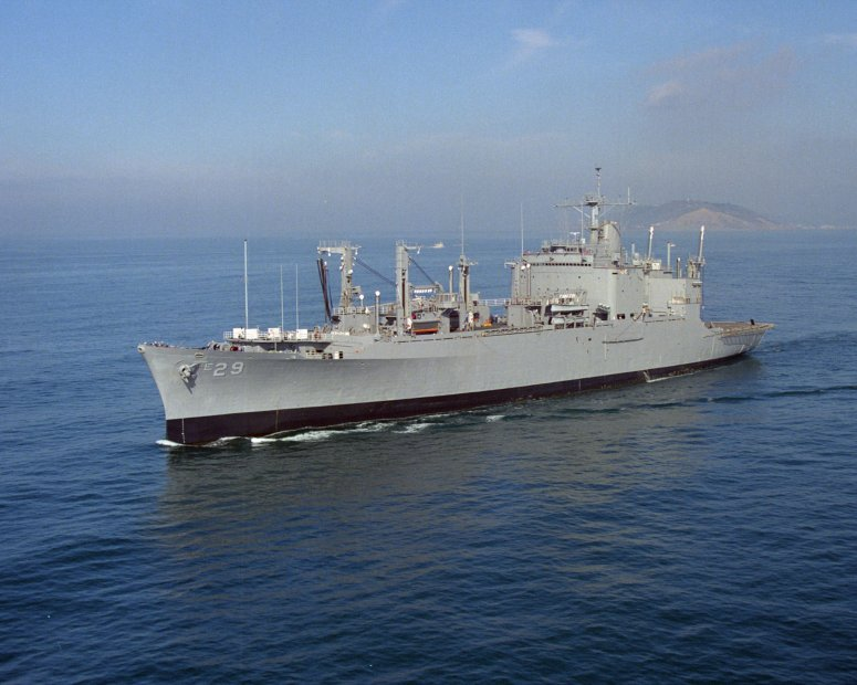 USS Mount Hood (AE-29), an ammunition ship of the U.S. Navy, heading out of San Diego Bay on September 30, 1997.